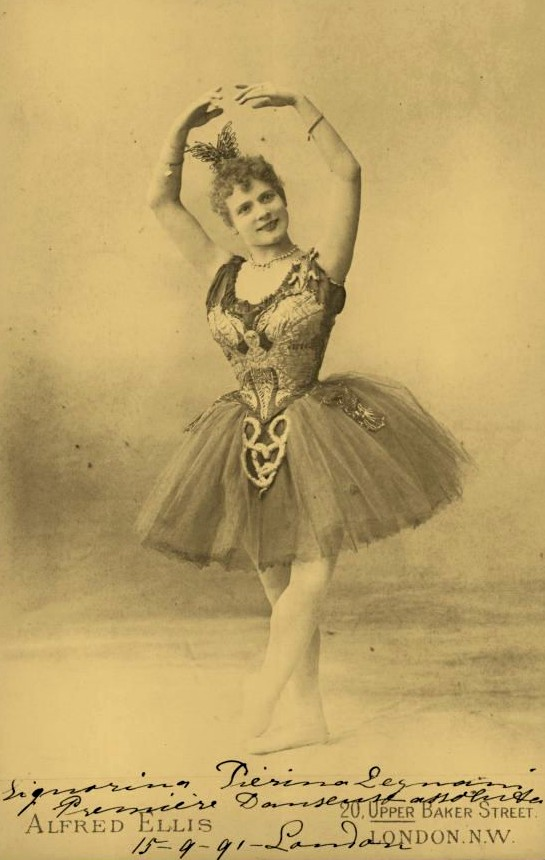 Photograph of Pierina Legnani (1863-1923)